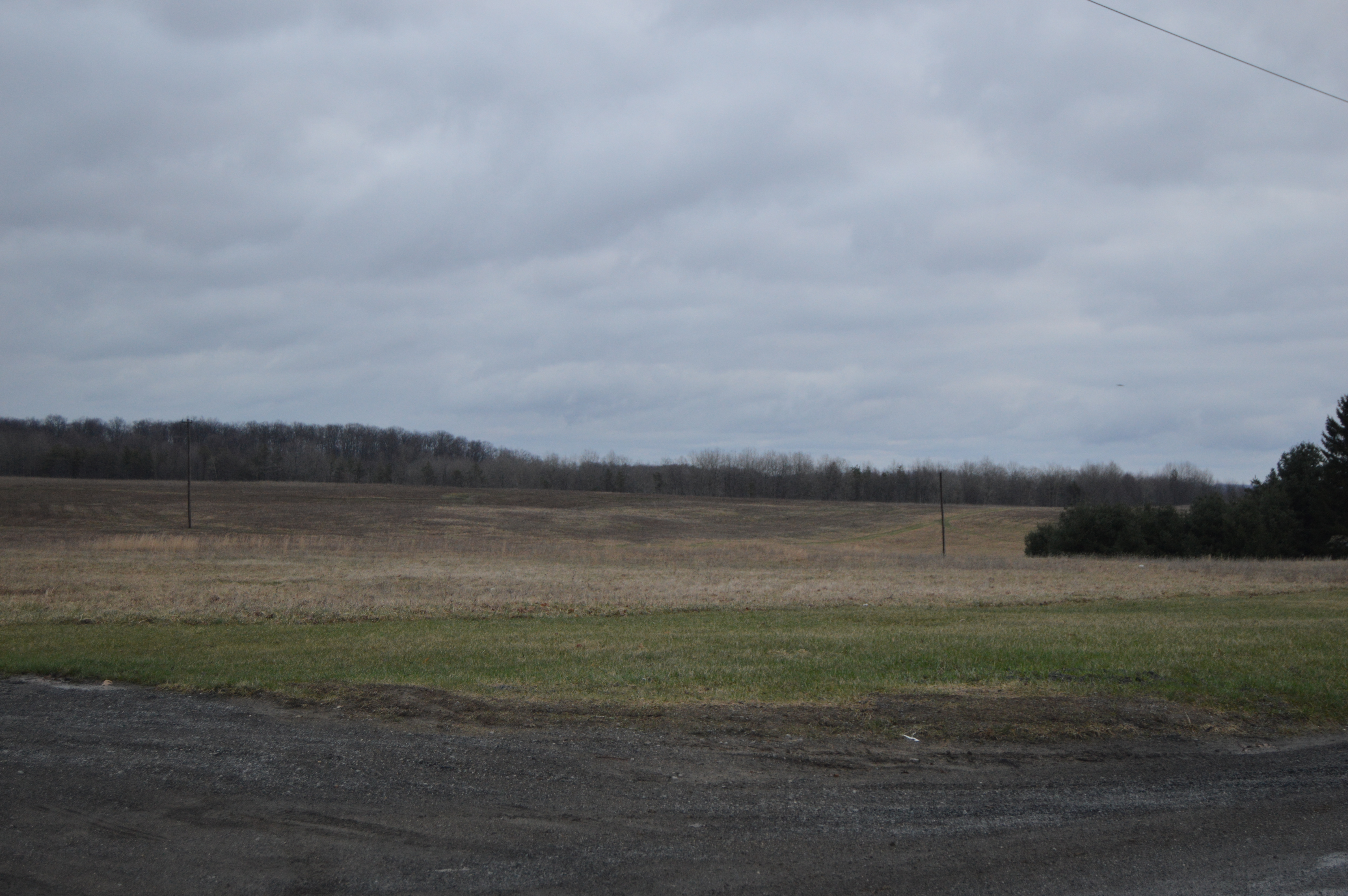 A field south of Clintonville in northwestern Venango Township, Butler County, Pennsylvania, United States. Photo looks northeast from the junction of Pennsylvania Route 308 and Sunbury Road.